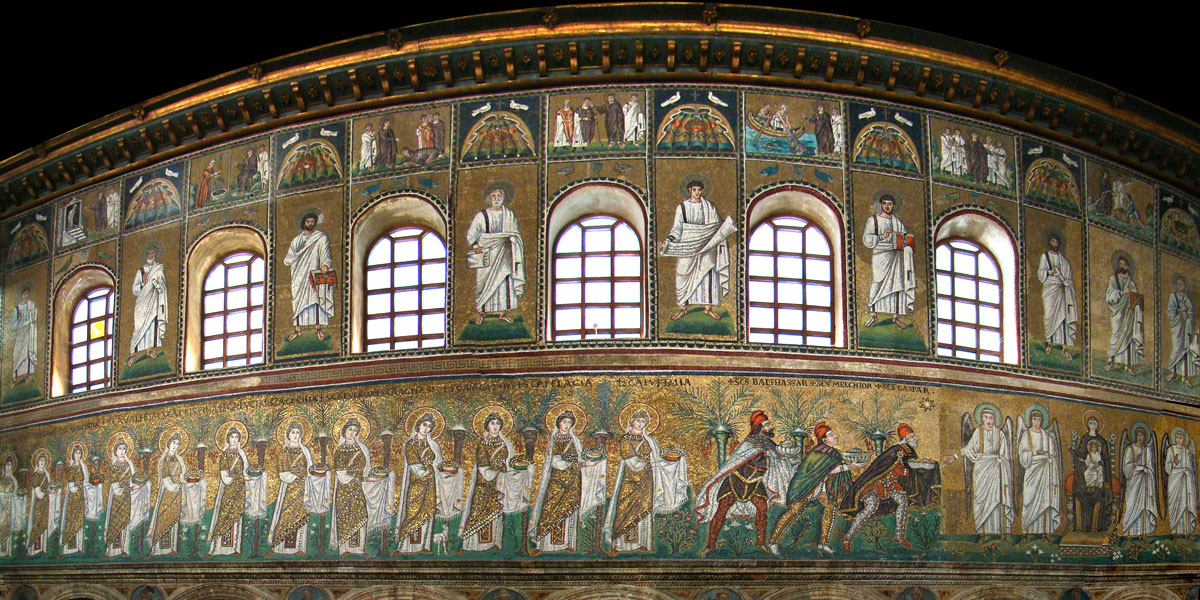 Basilica of Sant'Apollinare Nuovo, Ravenna, Emilia-Romagna, Italy. Mosaics along the north side of the nave. Upper register: scenes from the life of Christ. Intermediate register: saints and prophets. Lower register, from left to right: the virgin martyrs, the three Wise Men, Madonna and Child between four angels.